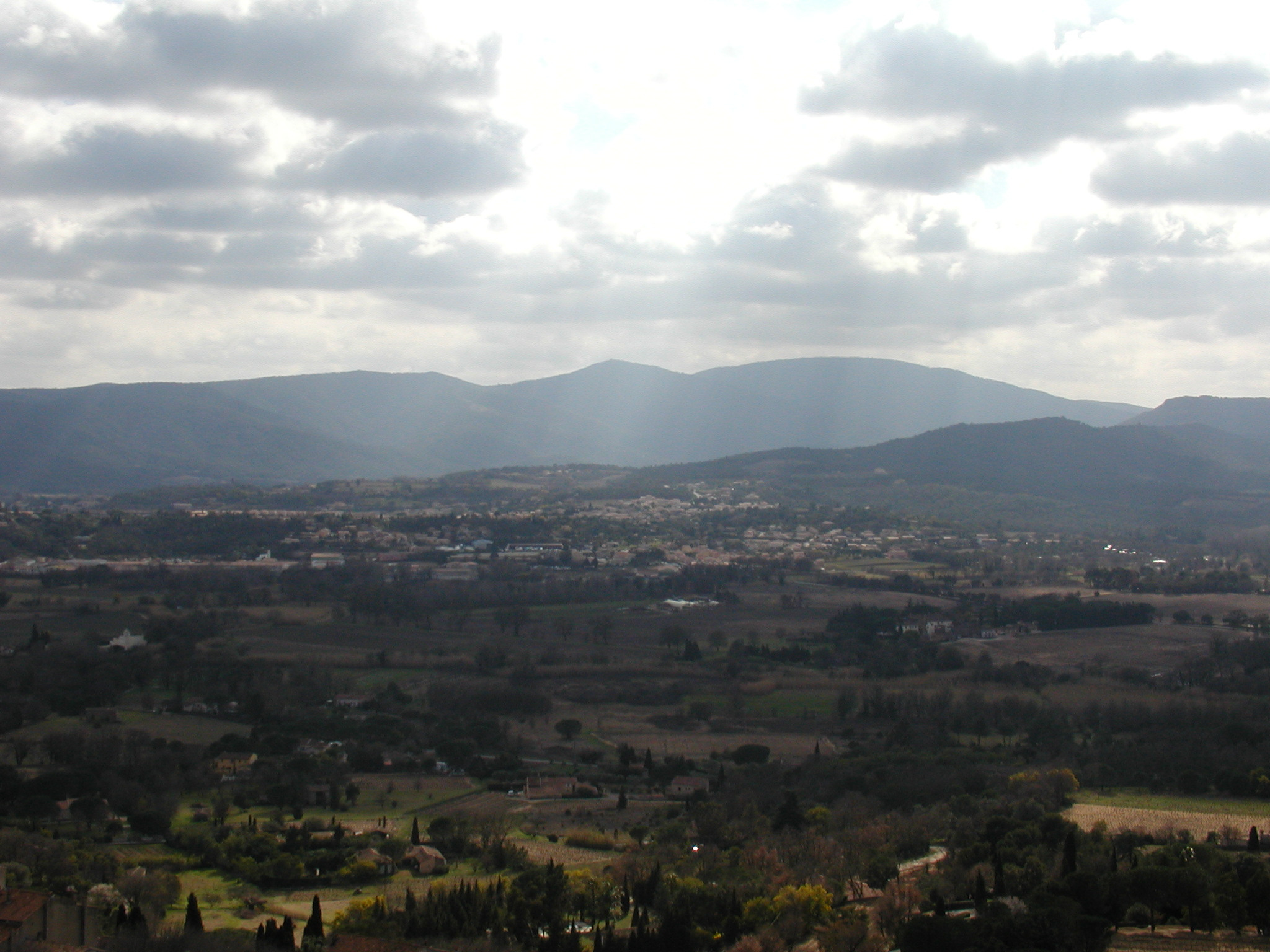 Cogolin seen from the castle of Grimaud